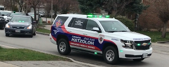 Hatzoloh Toronto vehicles